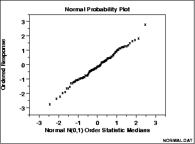 Normal probability plot